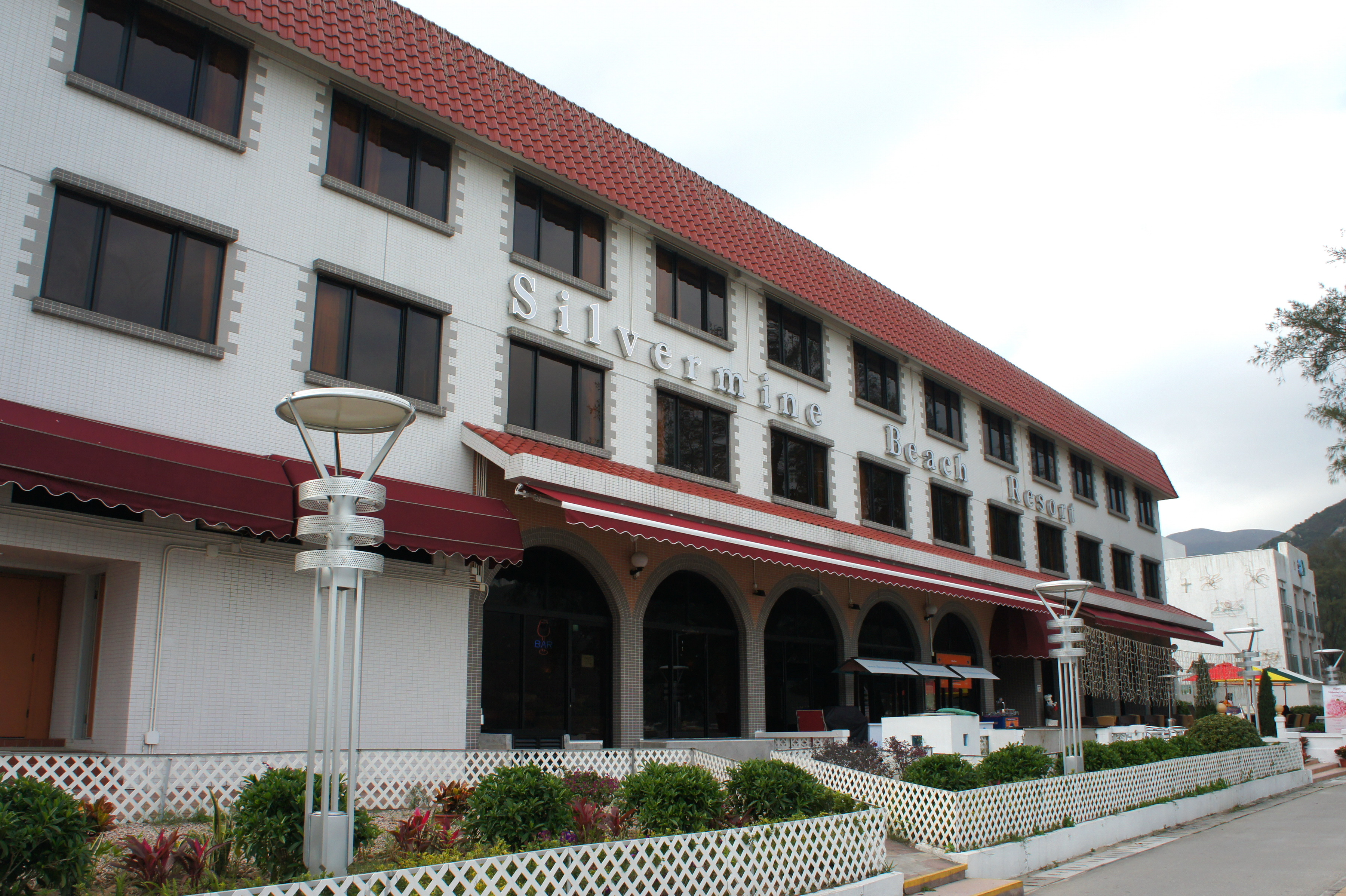 Silvermine Beach Resort Hotel, Mui Wo, Hong Kong.